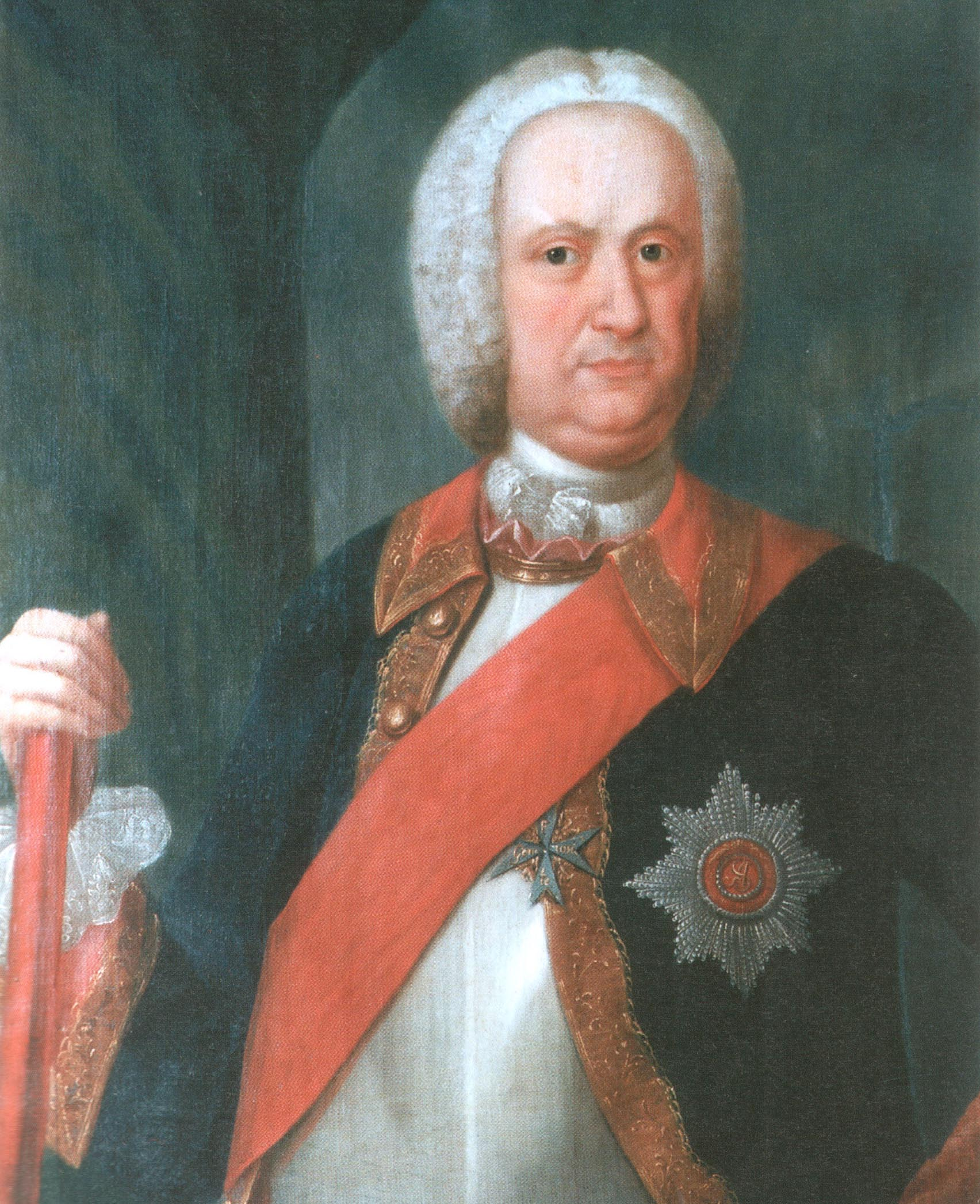 Portrait of Baltasar von Campenhausen (1689-1758)